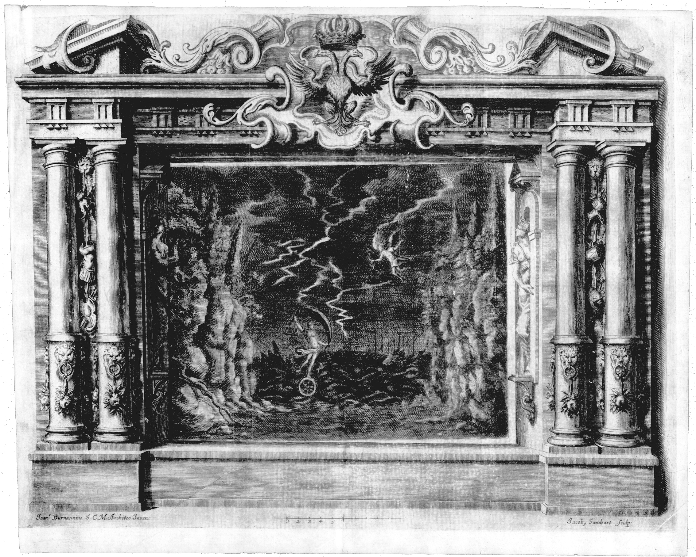 Jacob von Sandrart after Giovanni Burnacini: Landscape with stormy sea from the libretto of the opera ›L’inganno d’amore‹, Regensburg 1653. Copper engravings from two separate plates (stage framing and stage design), approx. 29 × 36.5 cm. Washington, Library of Congress, Music Division.